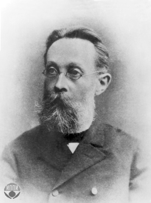 Josep (Osip) Wasilijewitsch Baranetzky (1843-1905), Russian botanist